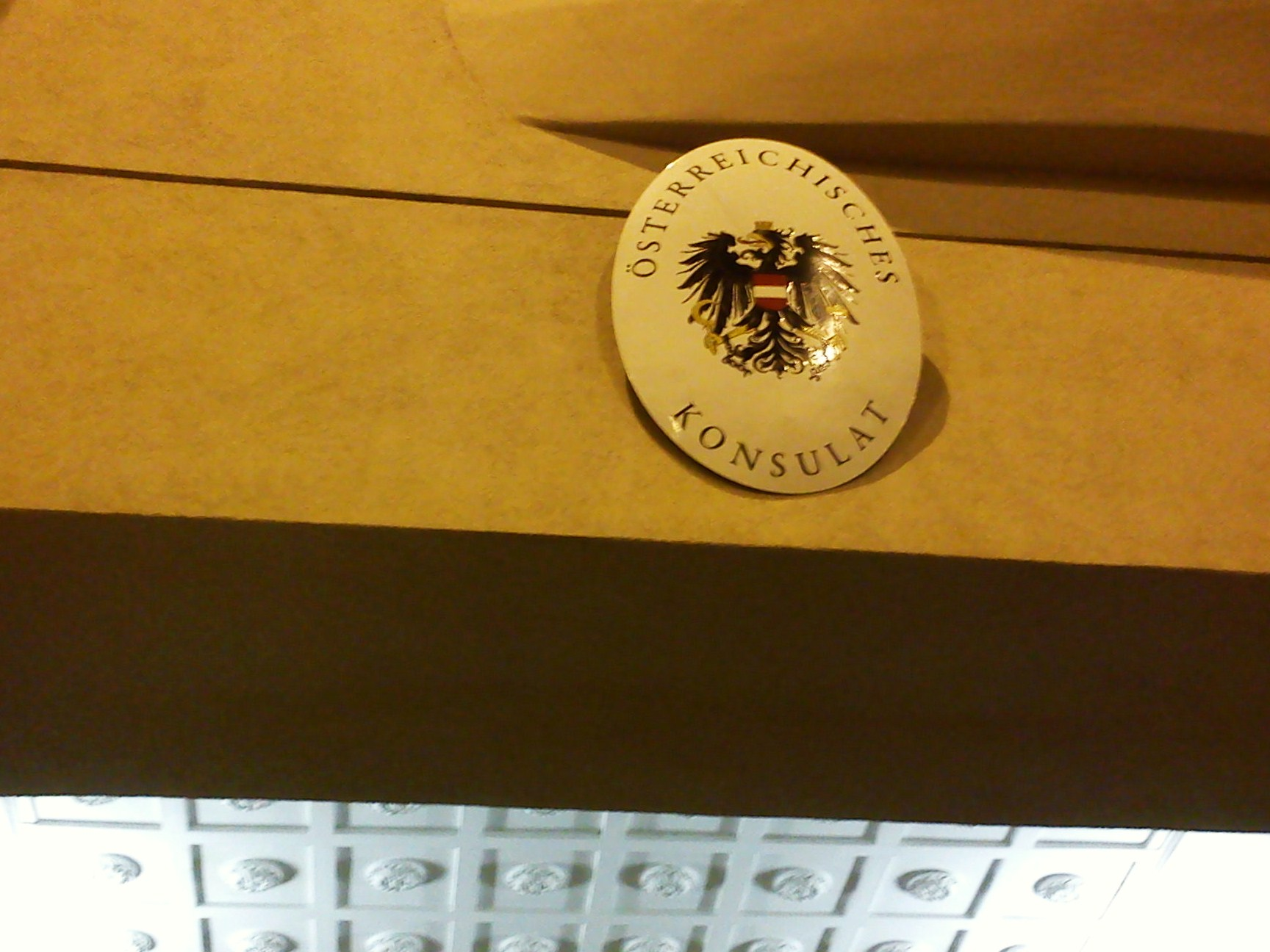 Austrian Consulat in Poznań (Fredry Street).